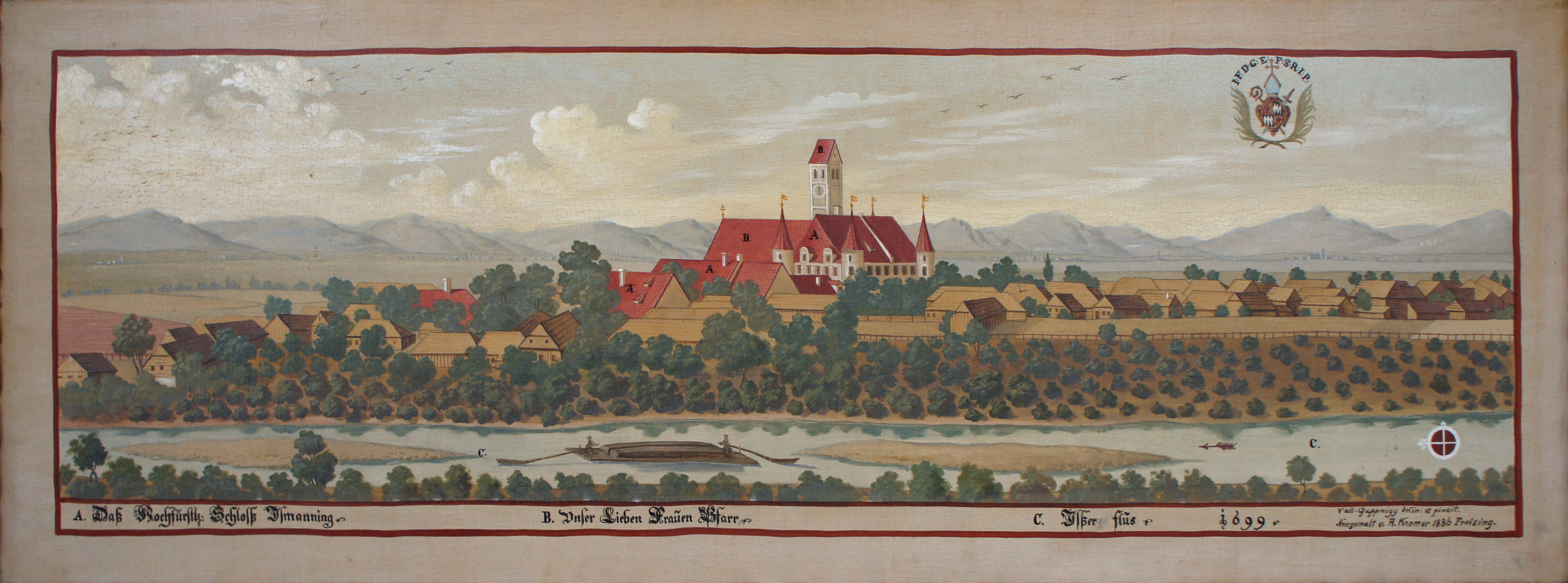 View of Ismaning, Bavaria. Part of a series of 32 paintings executed by Valentin Gappnigg between 1698 and 1702. Gappnigg had been commissioned by the prince-bishop of Freising, Johann Franz Eckher von Kapfing und Liechteneck, to paint views of the various possessions of the prince-bishopric. While the core territories of Freising were located in Bavaria, it also included several far-flung enclaves located inside Tyrol, Styria, Carinthia, Upper Austria and Carniola (now Slovenia).